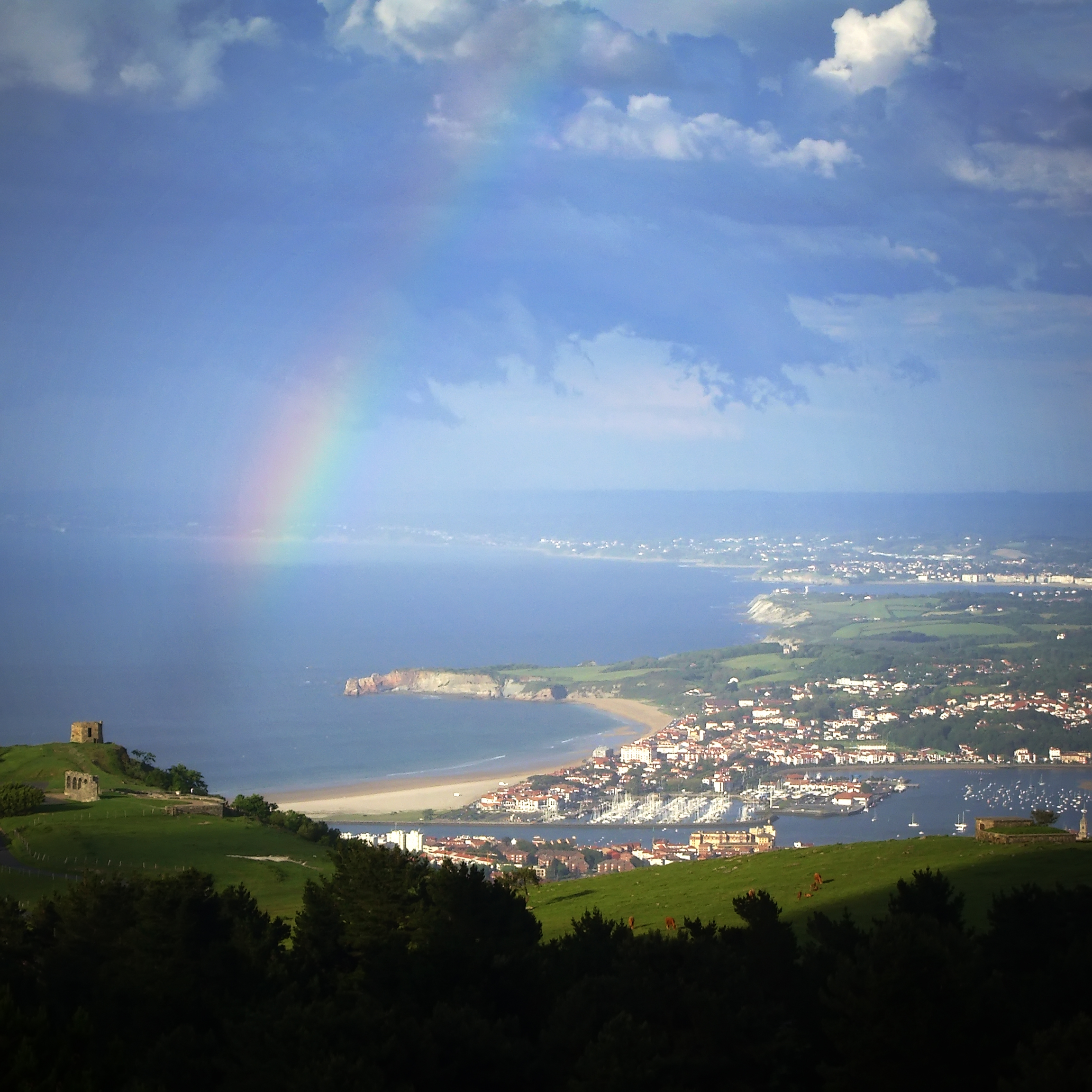 Hendaye (Northern Basque Country, France), watching from Jaizkibel mountain (Basque Autonomous Community, Spain).